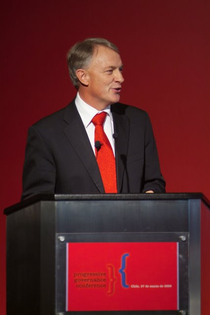 Philip B. Goff, current Leader of the Opposition and the Leader of the New Zealand Labour Party, attending the Progressive Governance Conference 2009 in Chile.